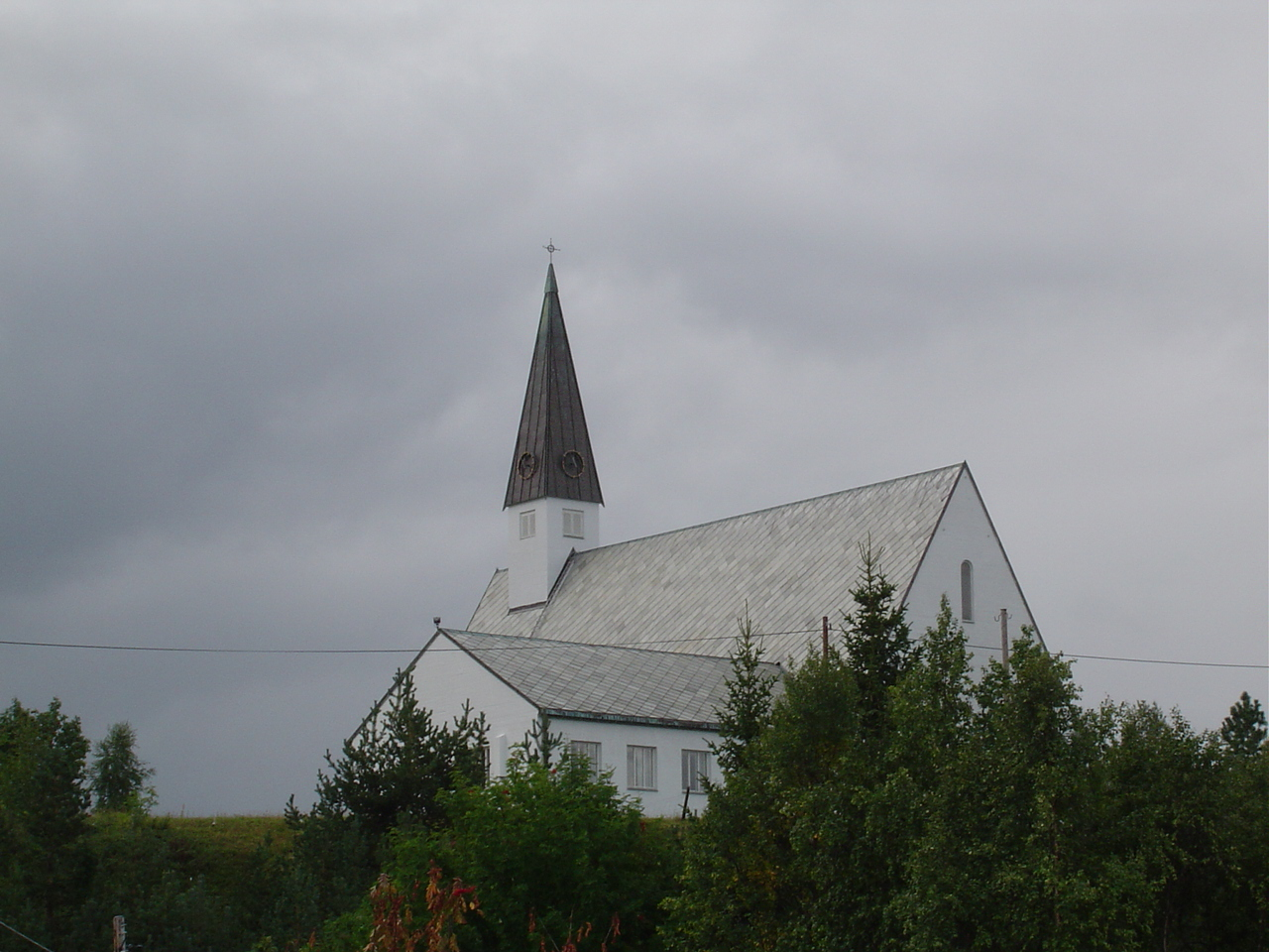 Church in the town Alta, Norway